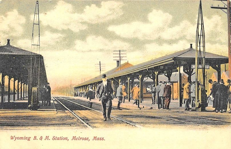 Early undivided back postcard of Wyoming station in Melrose, Massachusetts